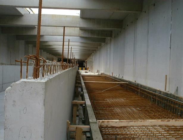 Construction of station "Delacroix" of the Brussels metro